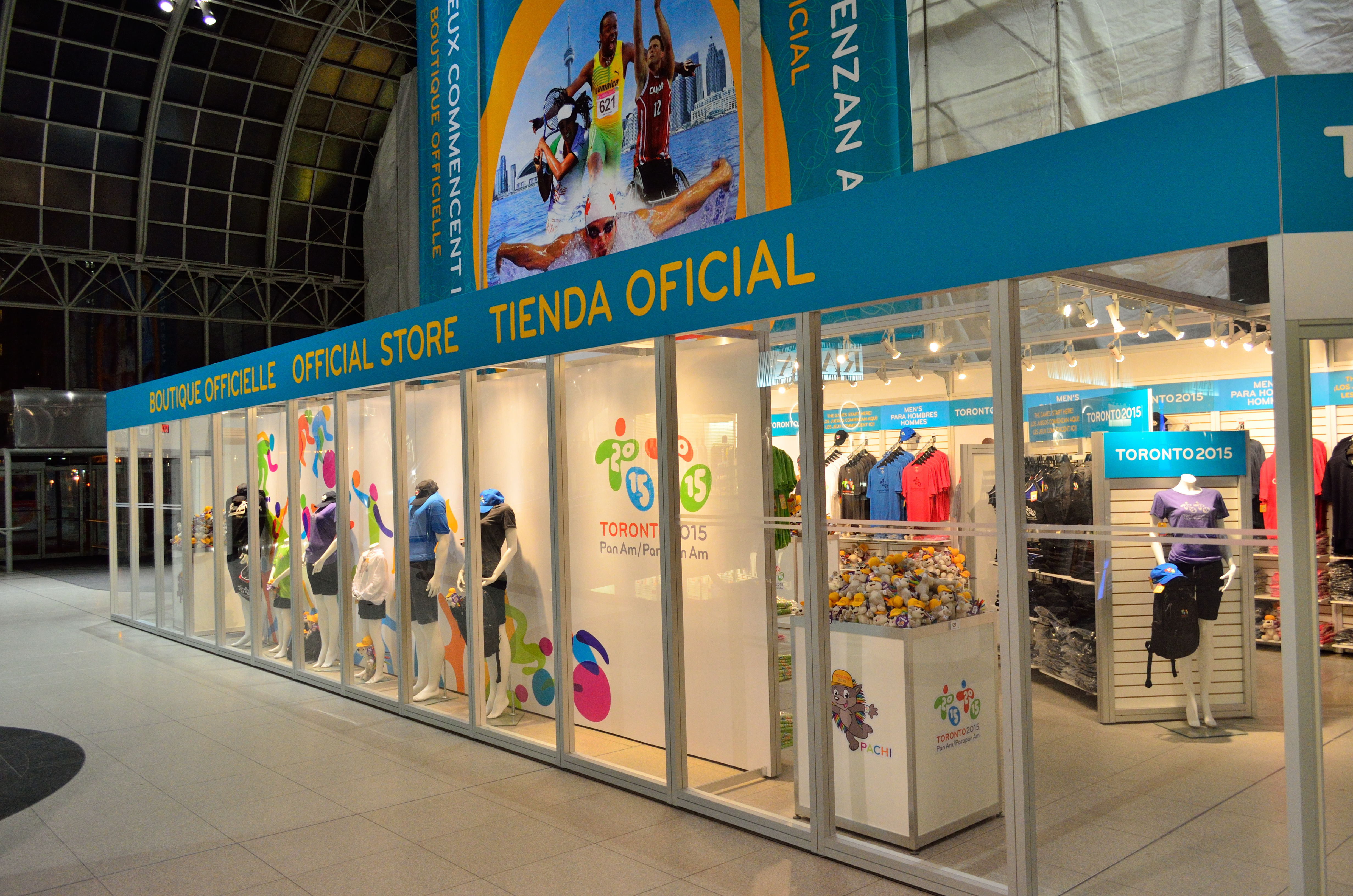 TORONTO 2015 Official Store at Eaton Centre